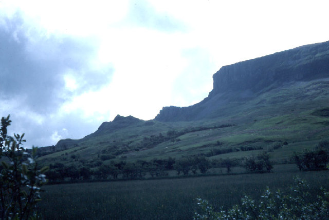 The Glennans. Habitat of the Irish willow